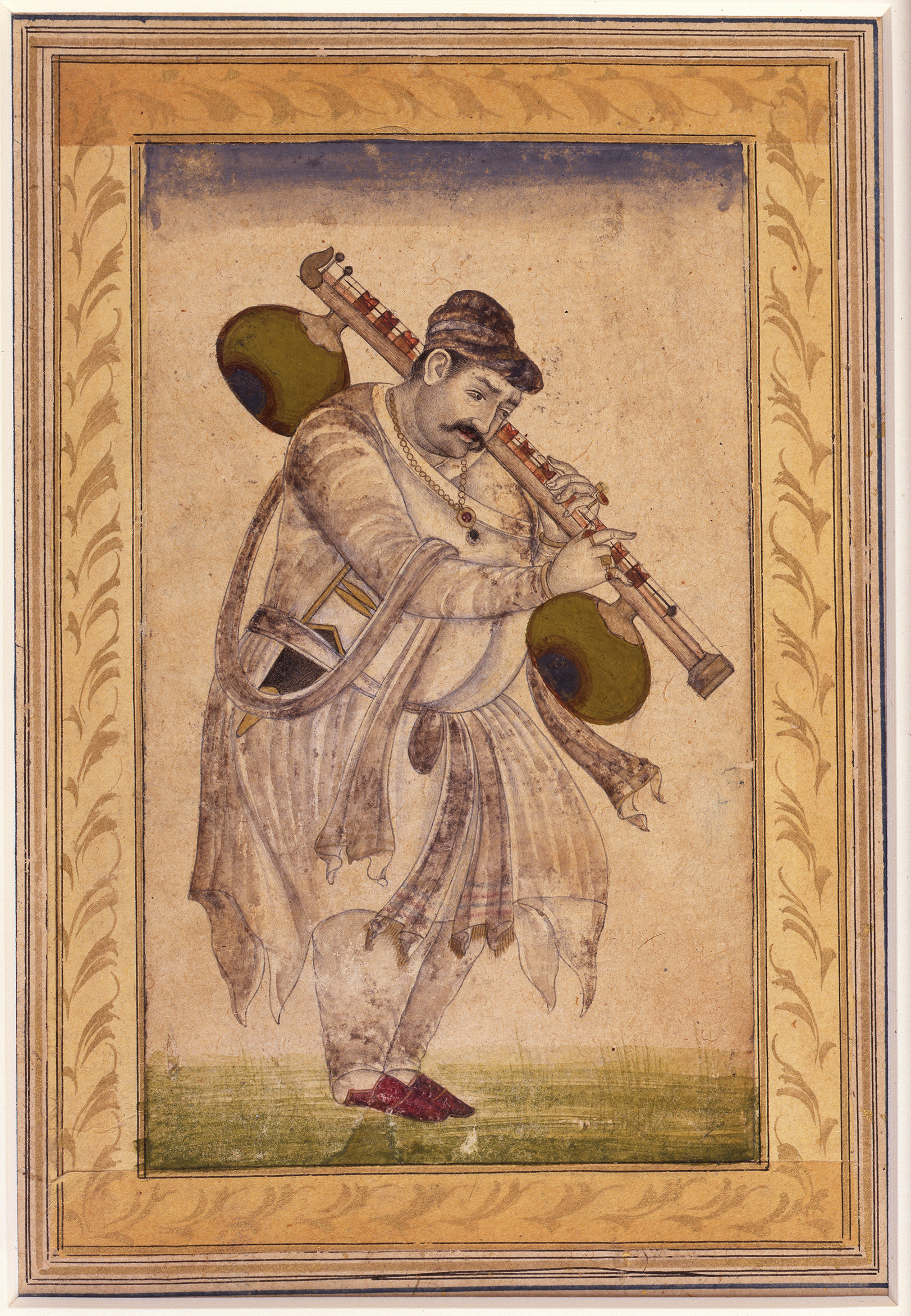 Naubat Khan,the vina player. Dimensions: 5 1/2 in. x 3 5/16 in. (14 cm x 8.4 cm). Credit Line: Edwin Binney 3rd Collection. Accession Number: 1990.379.